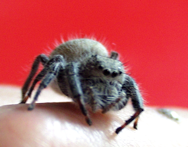 This large member of the Salticidae (jumping spiders) is a Phidippus octopunctatus, female, 16 mm. She is comparatively heavy-bodied for a jumping spider, and much larger that most other species of the Salticidae. While being photographed she was quite calm. These spiders do not have a reputation for biting, but are surely capable of delivering defensive bites.